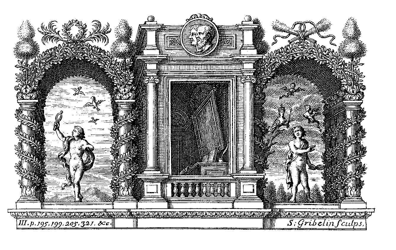 An emblem engraved for Lord Shaftesbury's Soliloquy according to the author's instructions.